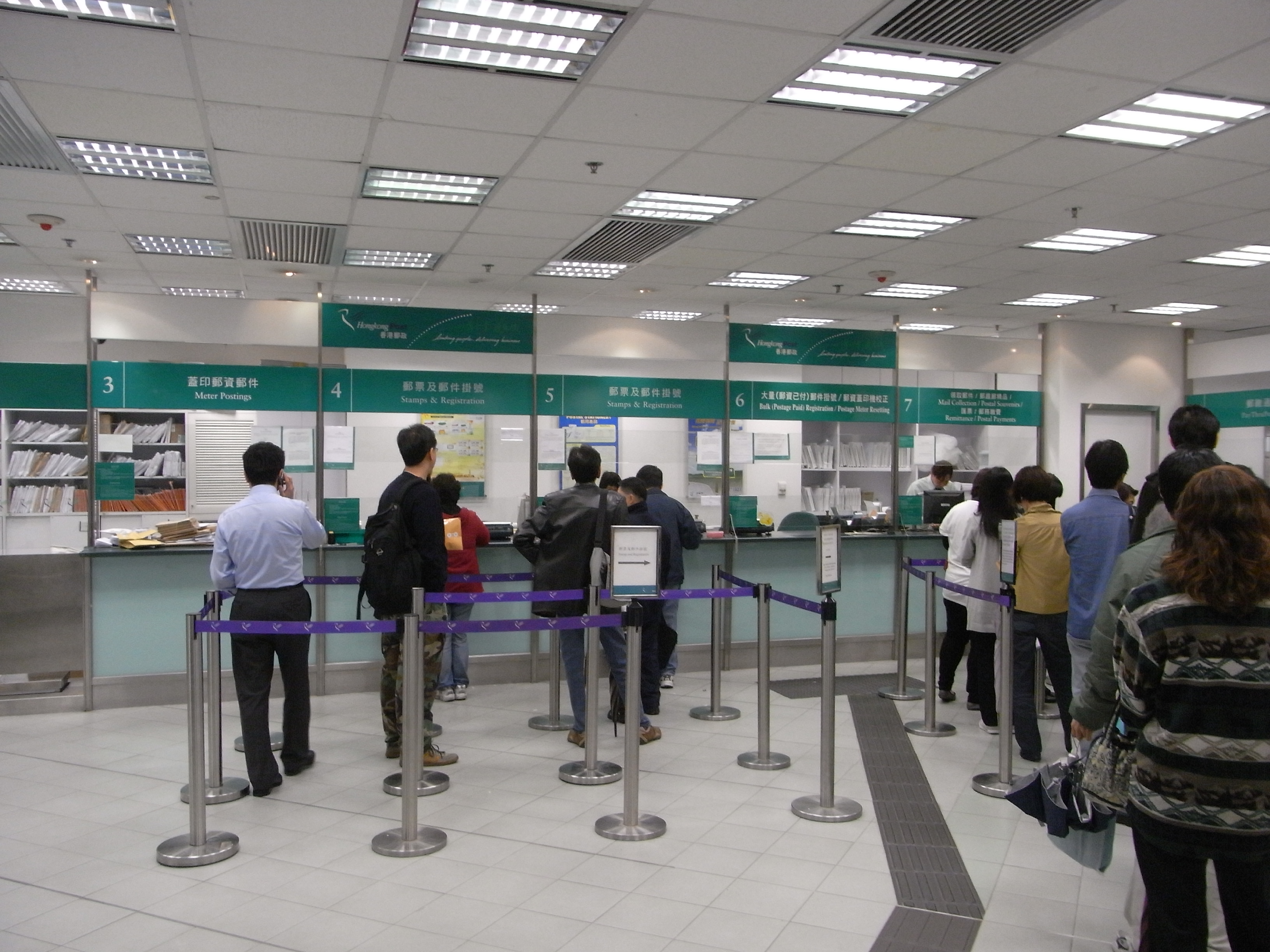 中環 皇后大道郵政局 服務台